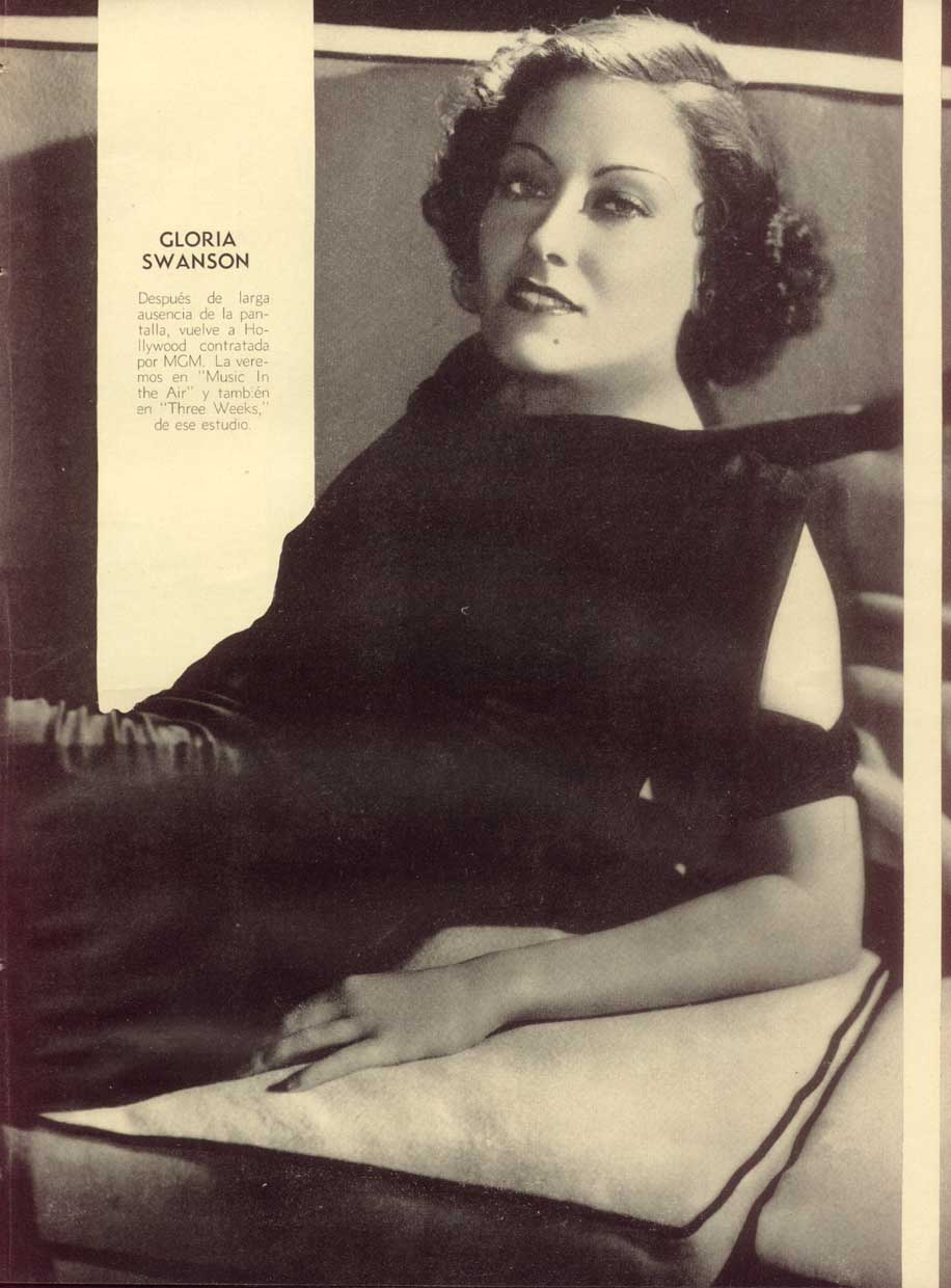 Publicity photo of Gloria Swanson for Argentinean Magazine. (Printed in USA)